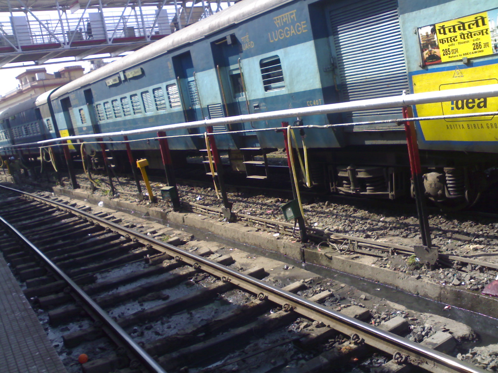 Panch Valley Express at Indore Junction